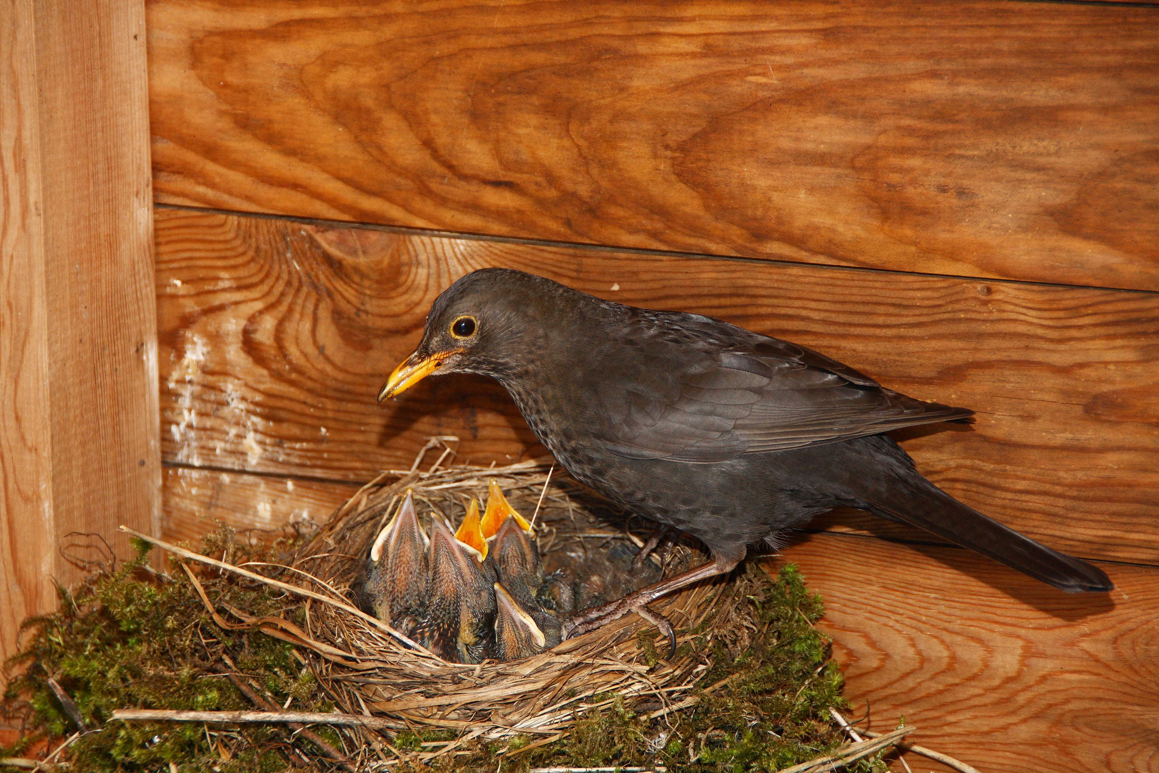 Turdus merula, seen in an outhouse at Gotland.